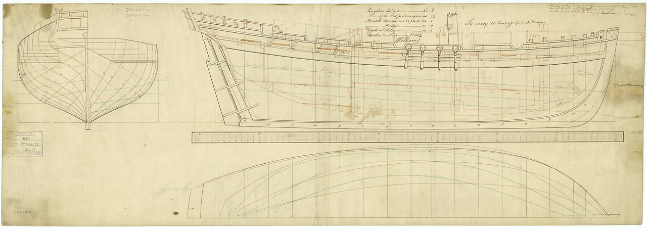 SPRIGHTLY 1778 lines & profile